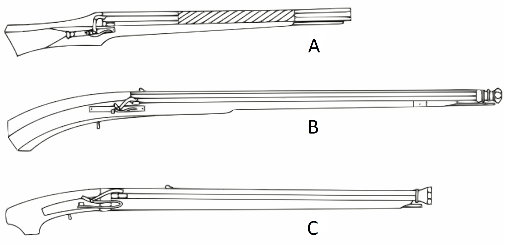 A. The matchlock gun with button, which came to Lisbon from Bohemia, ended up being used by the Portuguese along the Atlantic and Indian Ocean coastlines, until the conquest of Goa in 1510. B. The Indo-Portuguese matchlock gun resulted from the combination of Portuguese and Goan gunmaking. The Goa Arsenal was an inheritance from the conquest of this city, taken from the Moslems by the Portuguese. The House of the Ten Thousand Guns was however work of the Viceroys. The arms made there were scattered all over Asia. C. The Japanese matchlock gun appeared as a copy of the first firearm introduced in the Japanese islands. One of the Indo-Portuguese matchlock guns was taken by the Portuguese from the Goa Arsenal to Japan, where it was to be copied for more than three centuries.